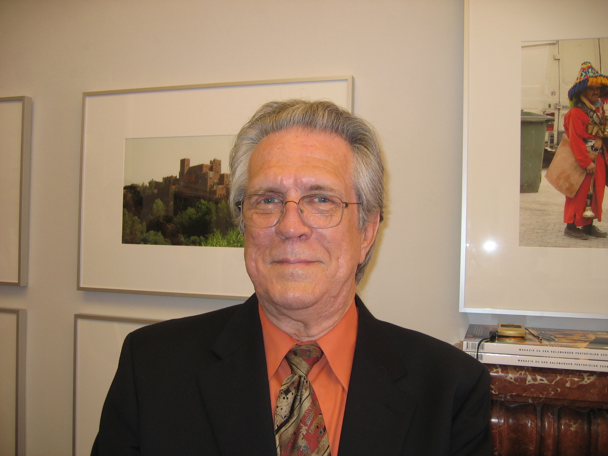 Richard Edlund at the opening of an exhibition of his photographs. Leica Gallery, Salzburg